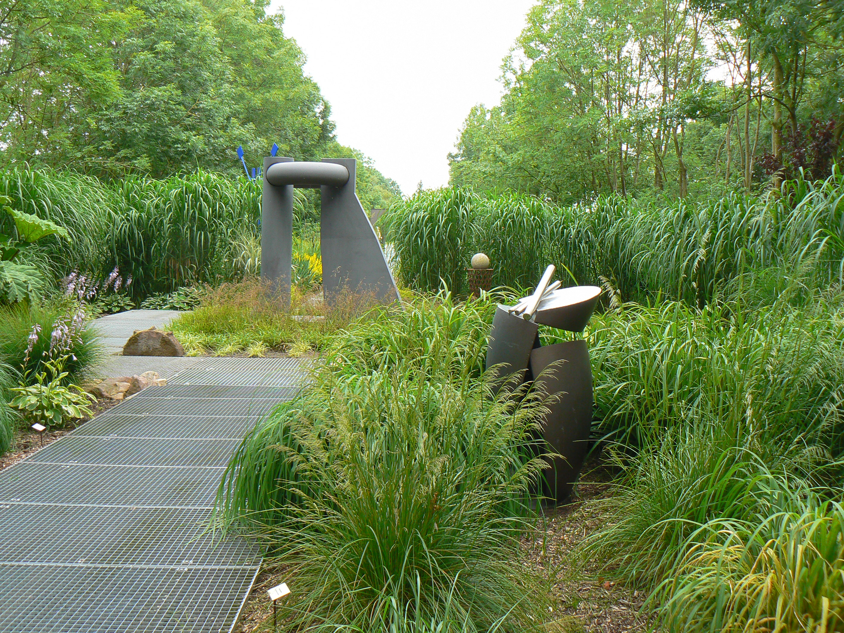 Sculpture Park Funnix in Funnix/Germany